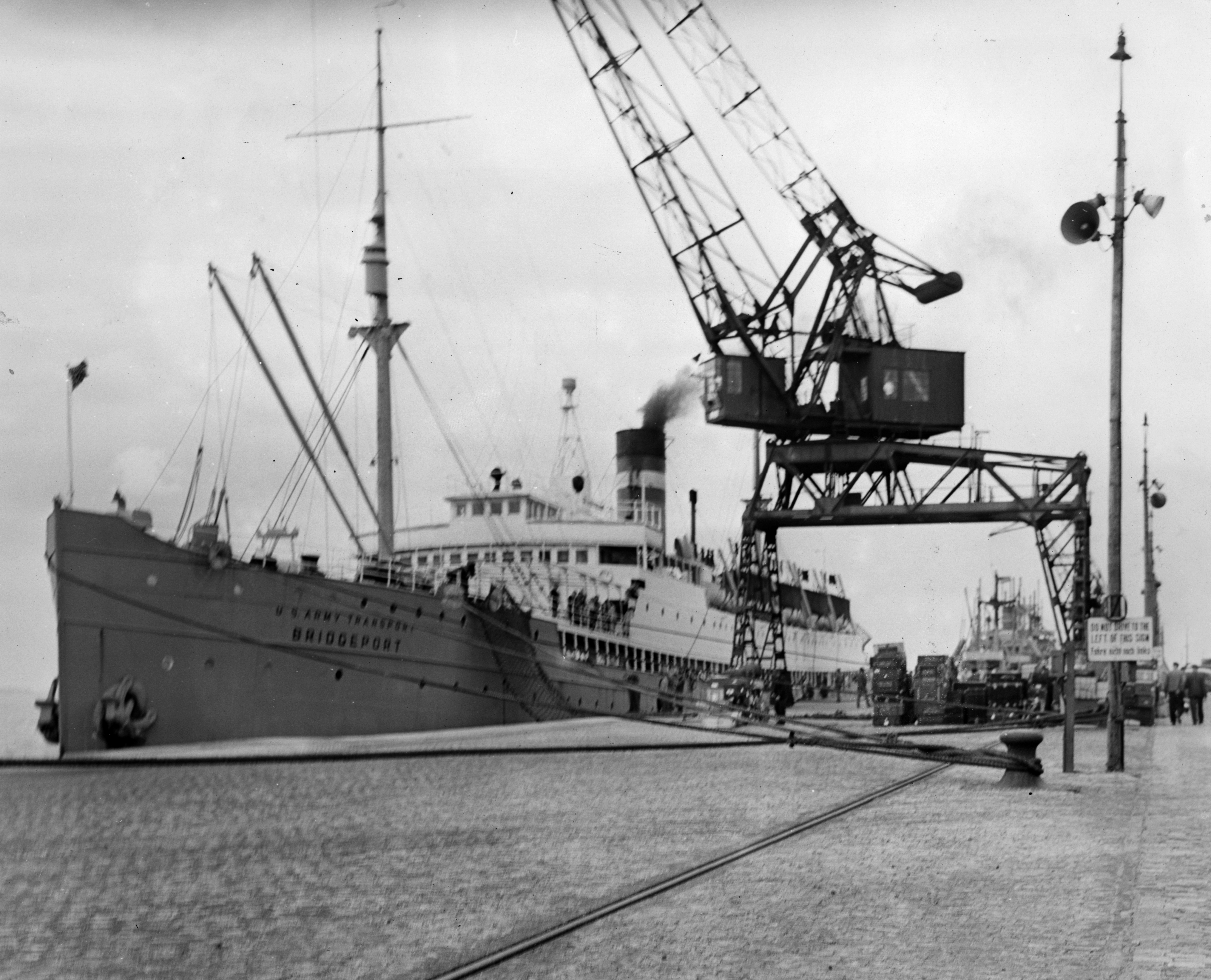 The U.S. Army transport Bridgeport in port, circa in 1946. USAT Bridgeport was used to carry war brides and other military dependents to the United States, in 1946-1947. Note: as the traffic sign in the foreground is in English and German, the photo was obviously taken in Germany, probably in U.S.-occupied Bremerhaven.